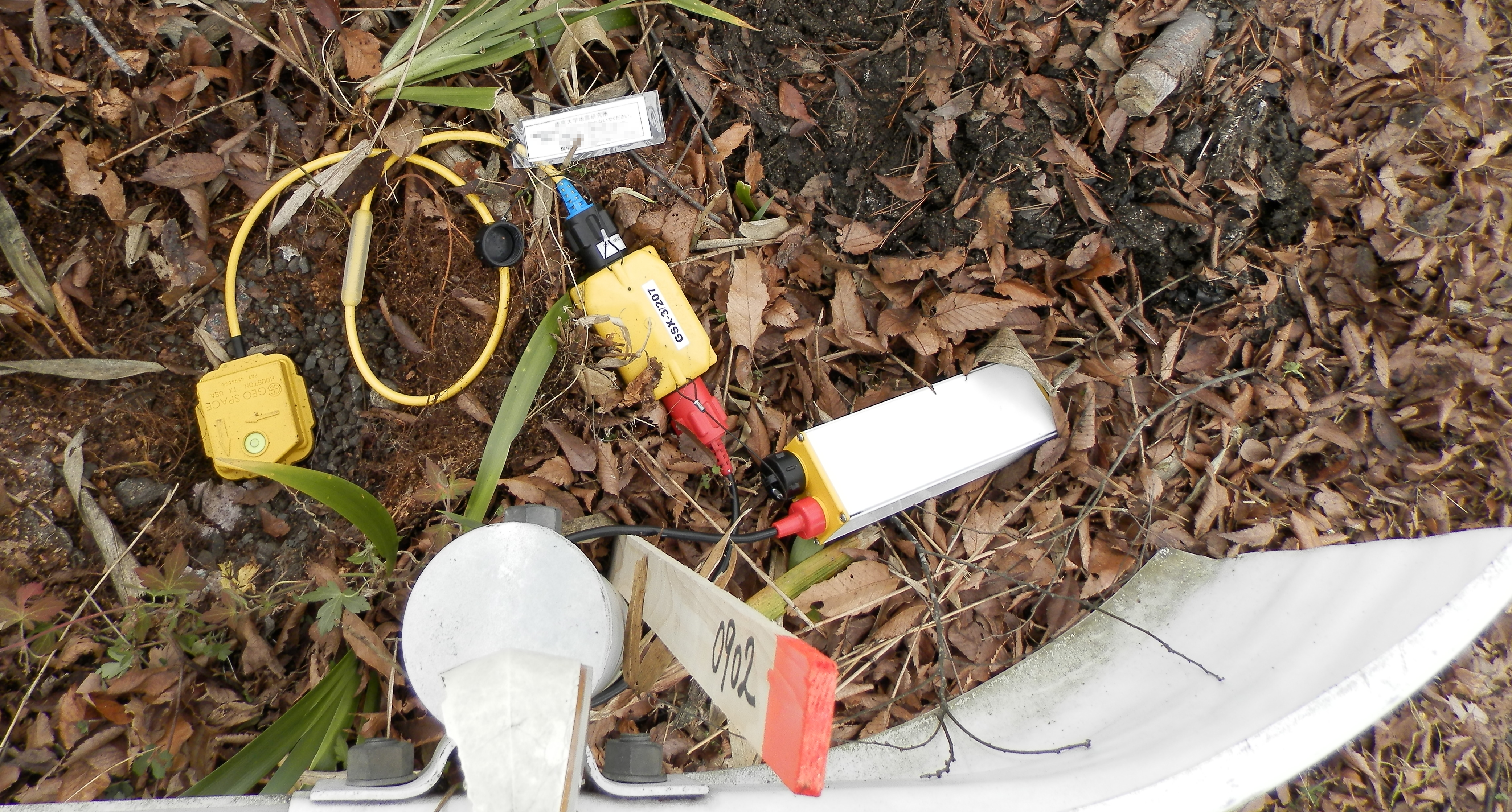 Simple seismometer with a data logger function. I play an active part in special seismography after earthquake occurring.